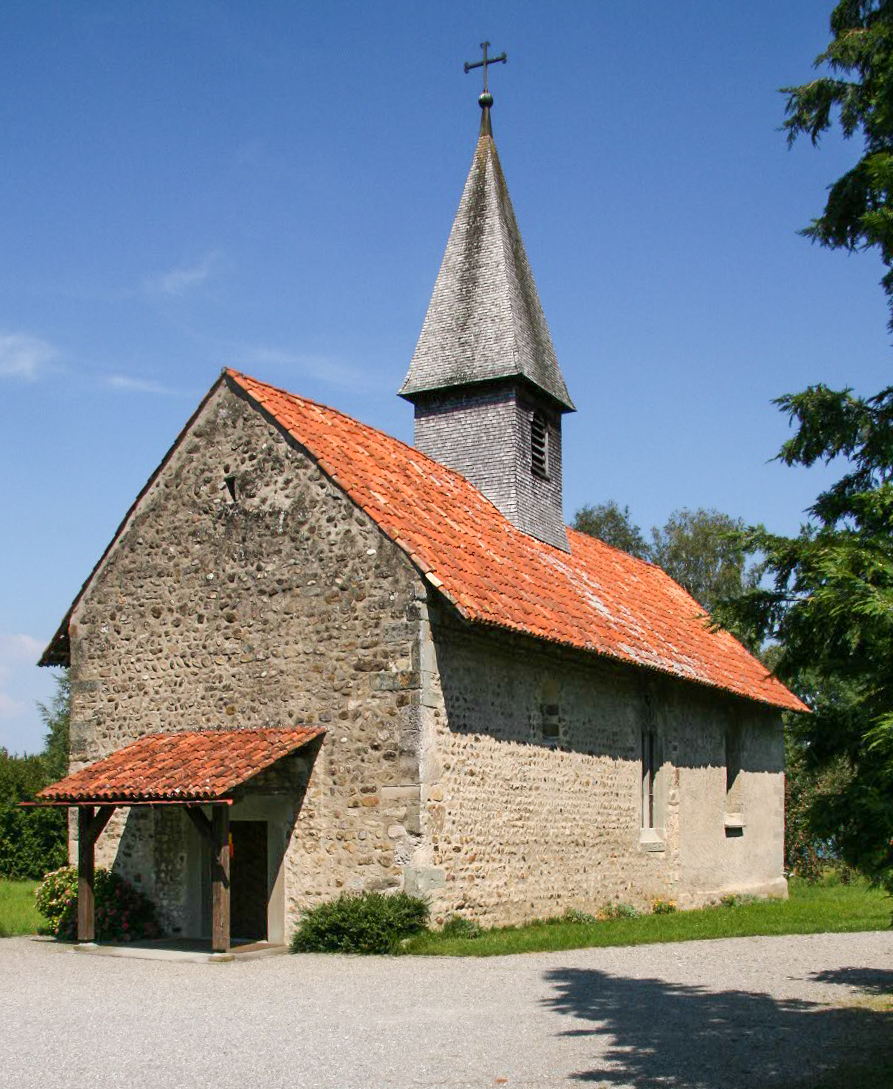 Romanesque Chapel St.Leonhard, Landschlacht, Münsterlingen, Canton of Thurgau, Switzerland